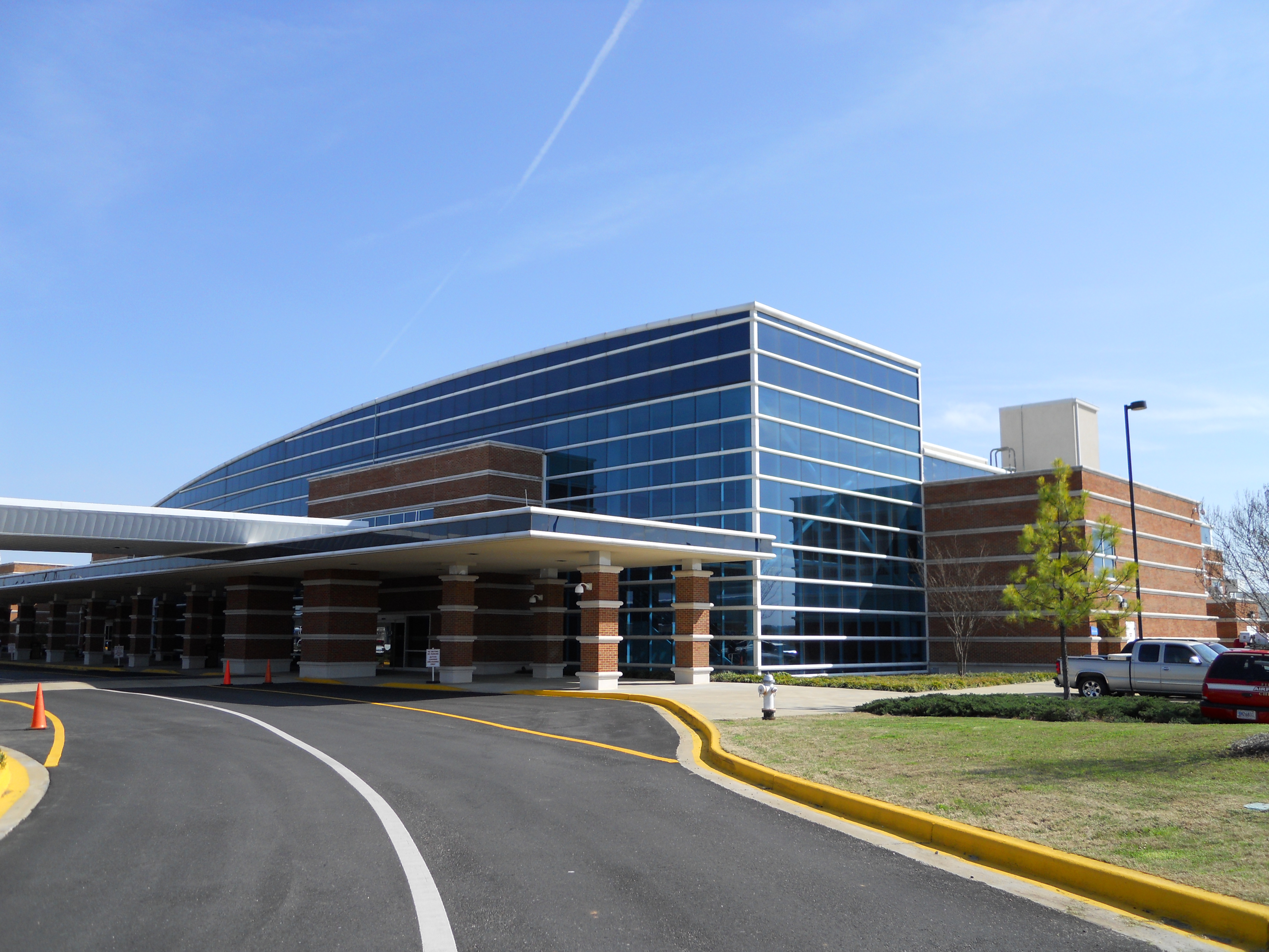 This is a photograph of the terminal of the Montgomery Regional Airport in Montgomery, Alabama.